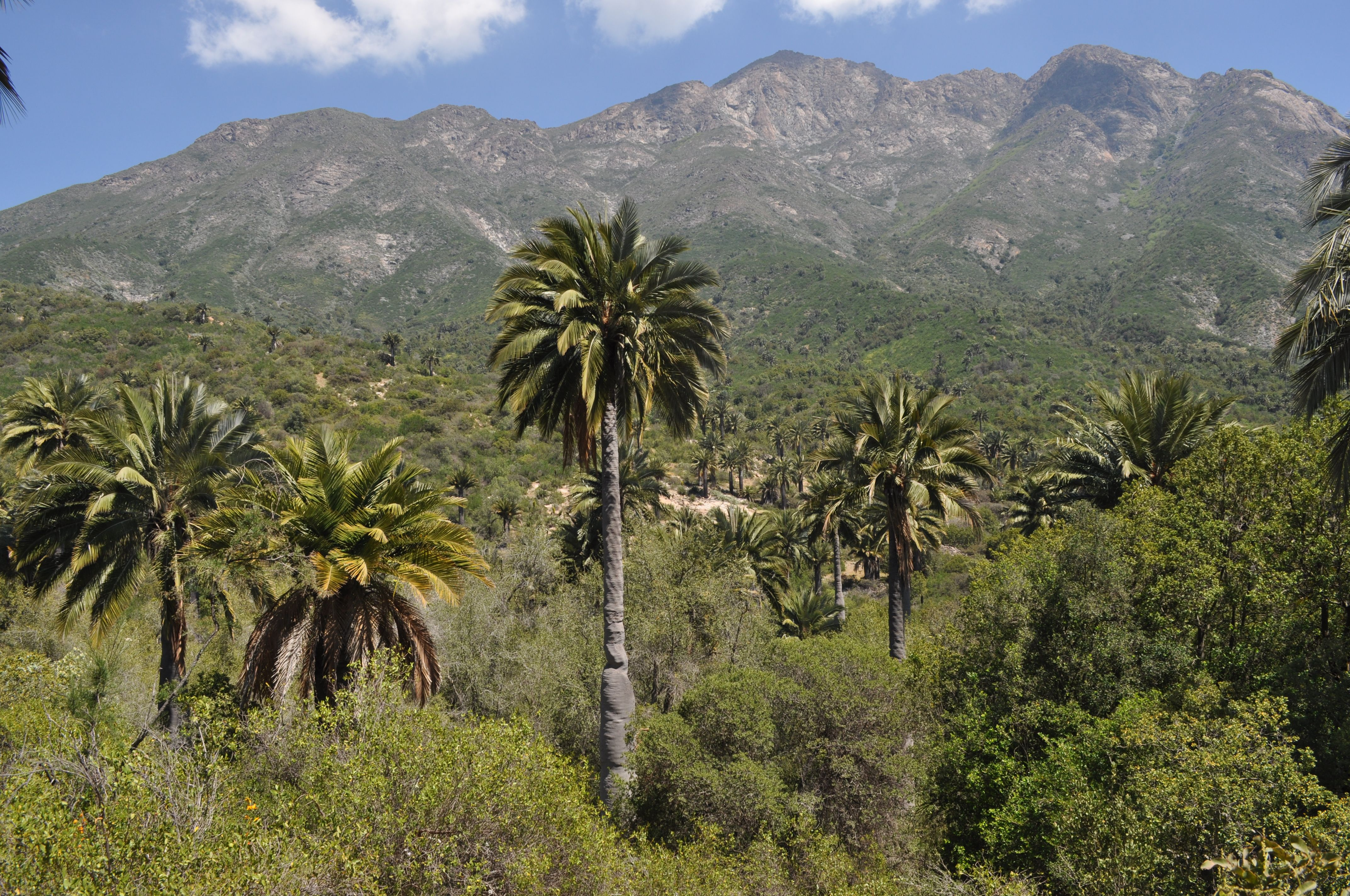 Palmas de Ocoa area in La Campana National Park, Valparaiso Region, Chile, with palm forests of endemic Jubaea chilensis. In the Cordillera de la Costa (Chilean Coast Range).